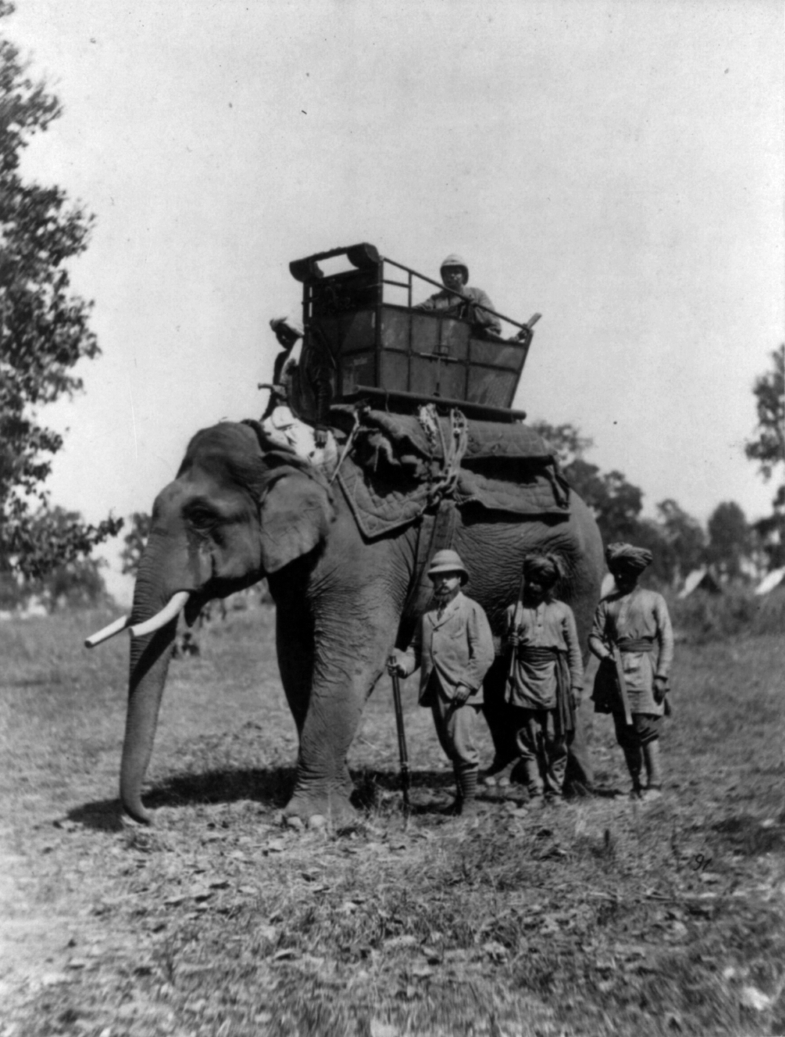 Prince of Wales posing with elephant bearing a howdah, Terai, India